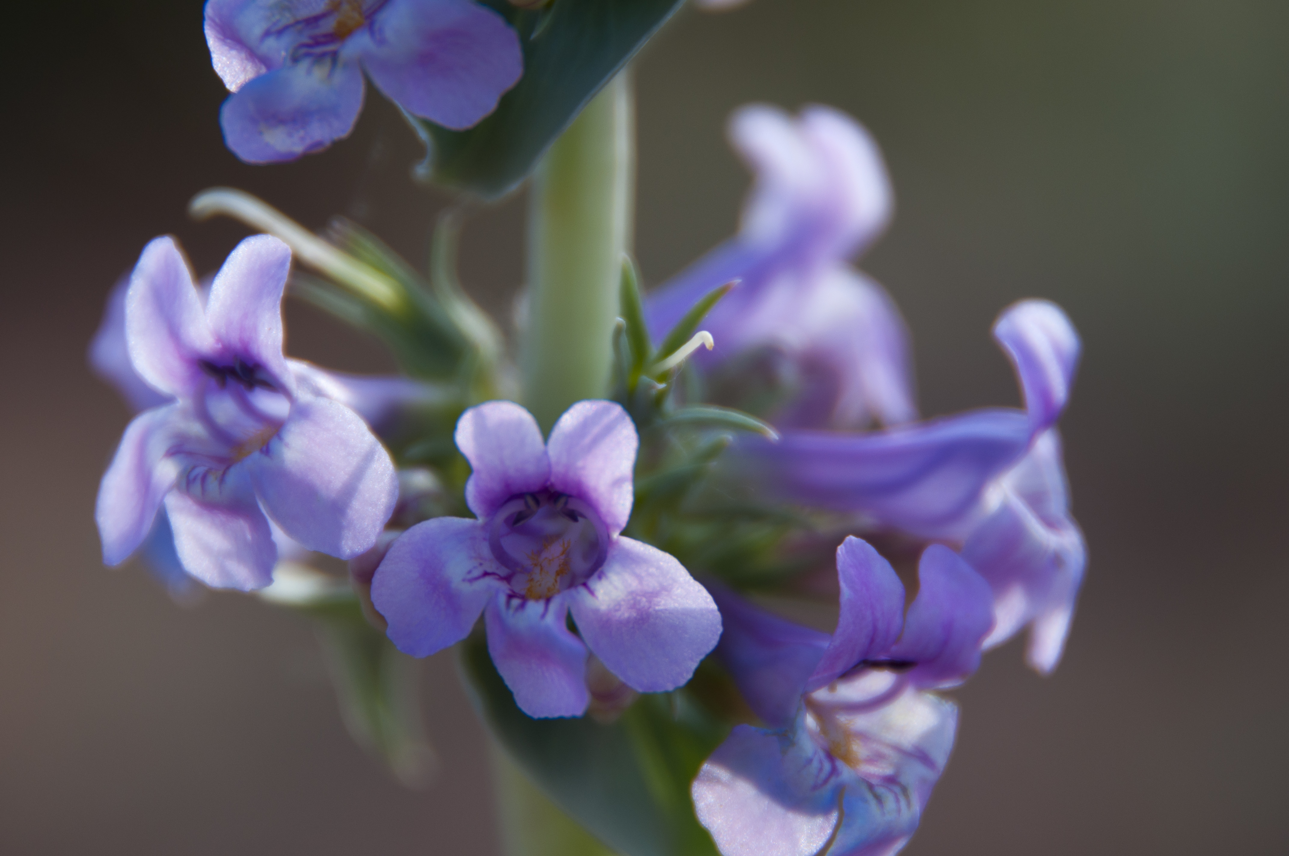 Credit: NPS/Neal Herbert